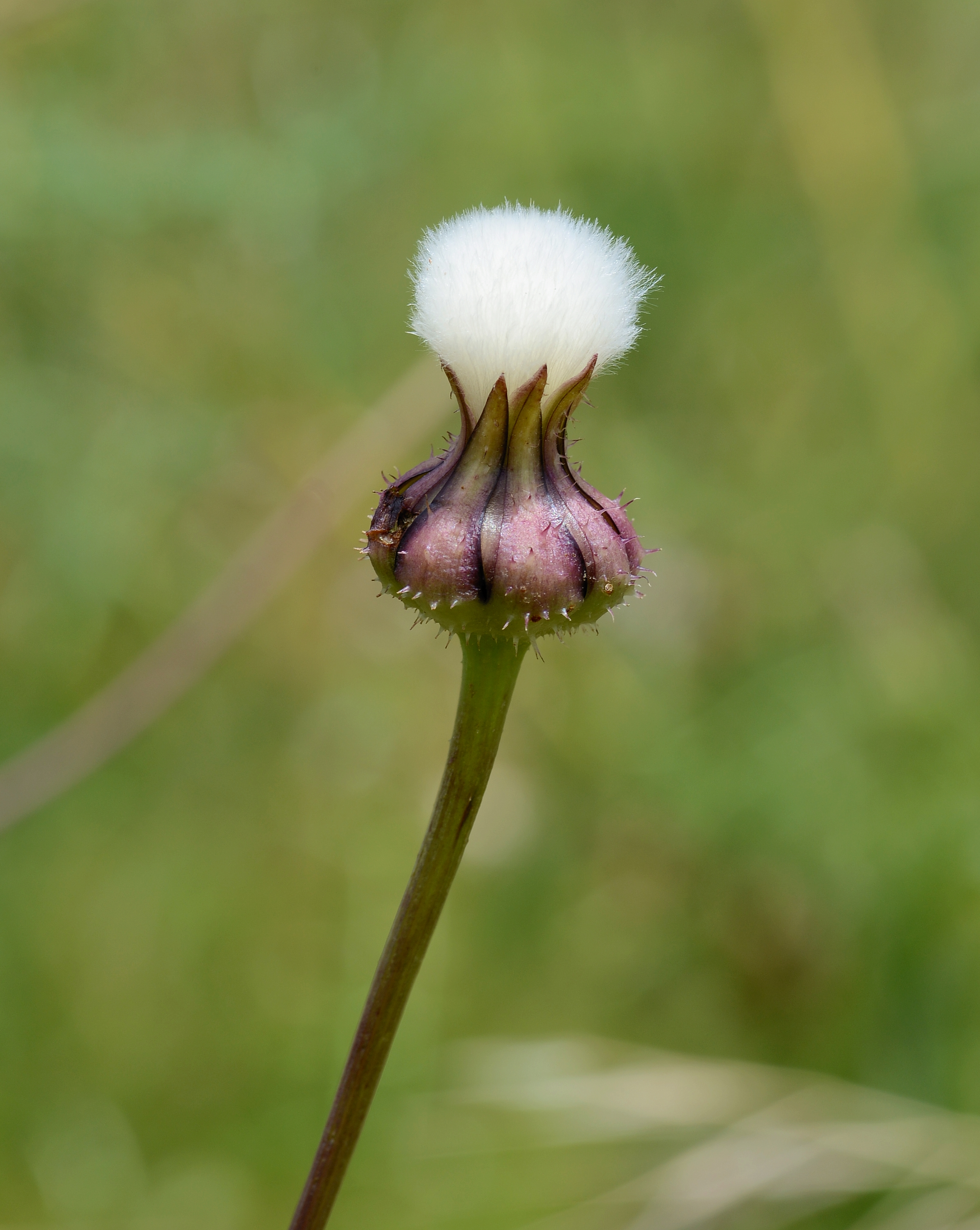 Capsule of a Smooth Sow-Thistle (Sonchus oletaceus)